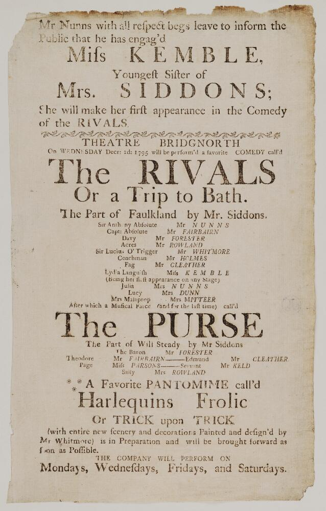 Playbill of Theatre, Wednesday Decr. 2d: 1795, announcing The rivals, or, A trip to Bath &c.; "the company will perform on Mondays, Wednesdays, Fridays, and Saturdays"; Rivals, or, A trip to Bath; Purse; Harlequins frolic or Trick upon trick; [Playbill of Theatre, Wednesday Decr. 2d: 1795, announcing The rivals, or, A trip to Bath &c.]